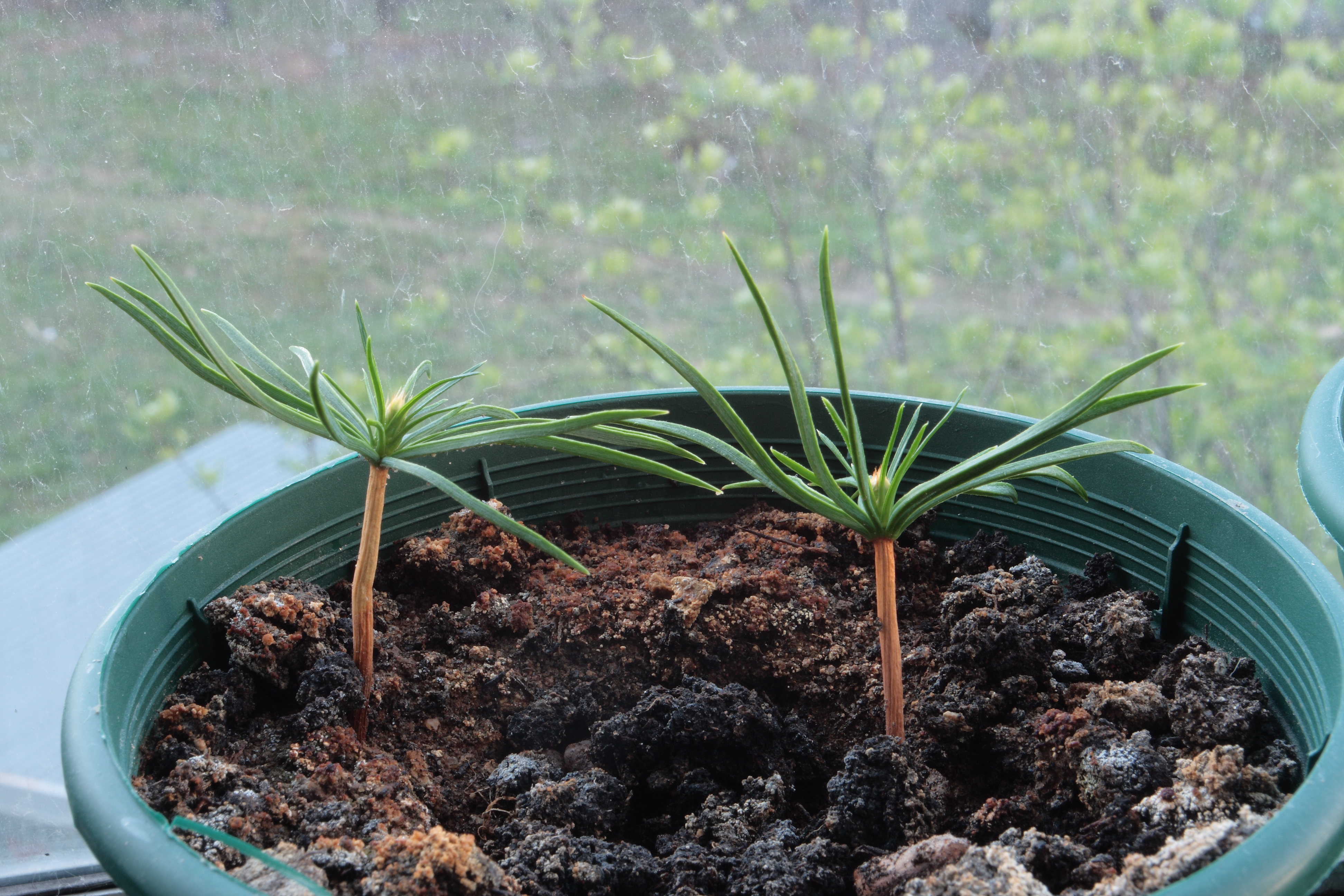 Two month age sprouts of siberian pine